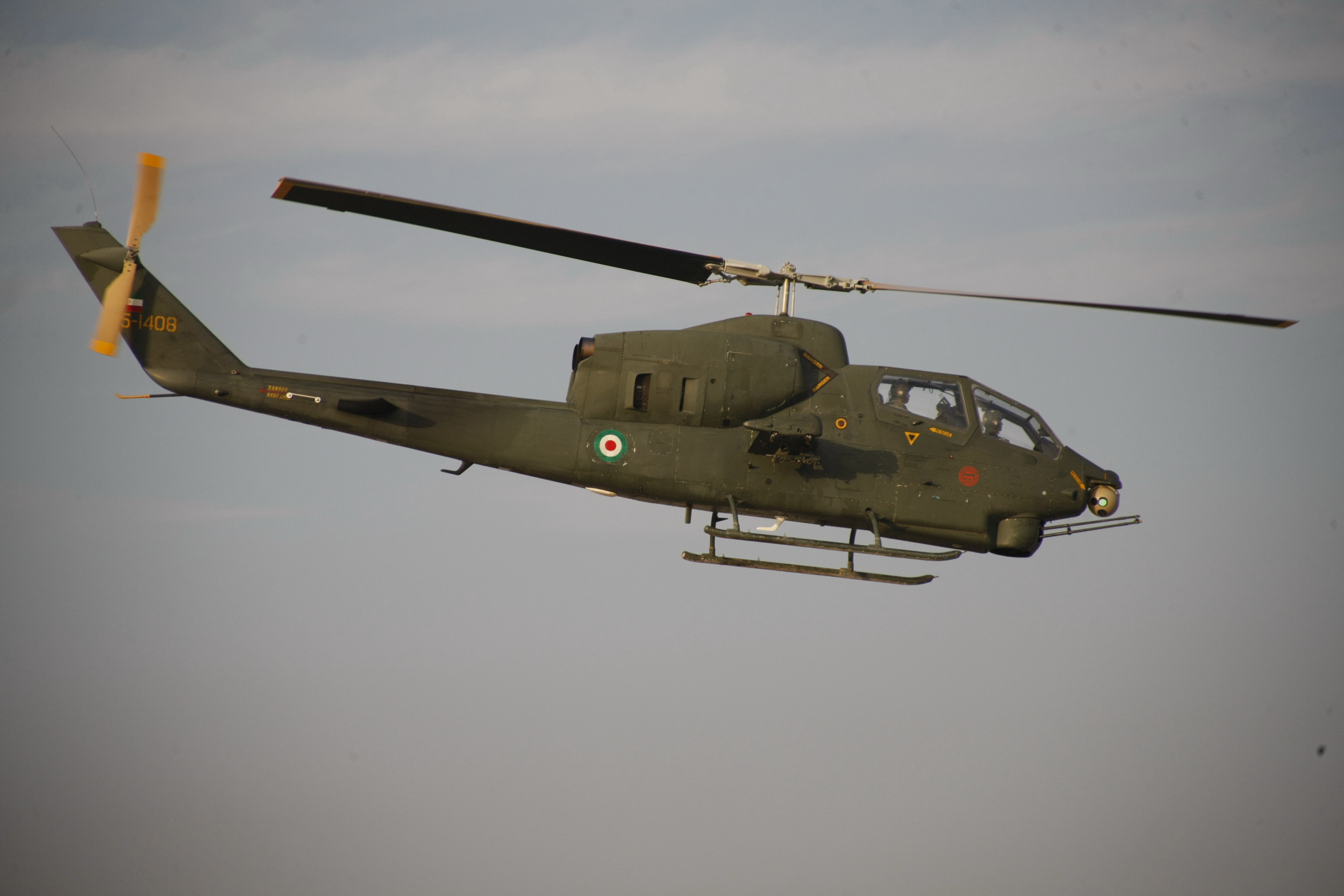 Iranian AH-1 Cobra